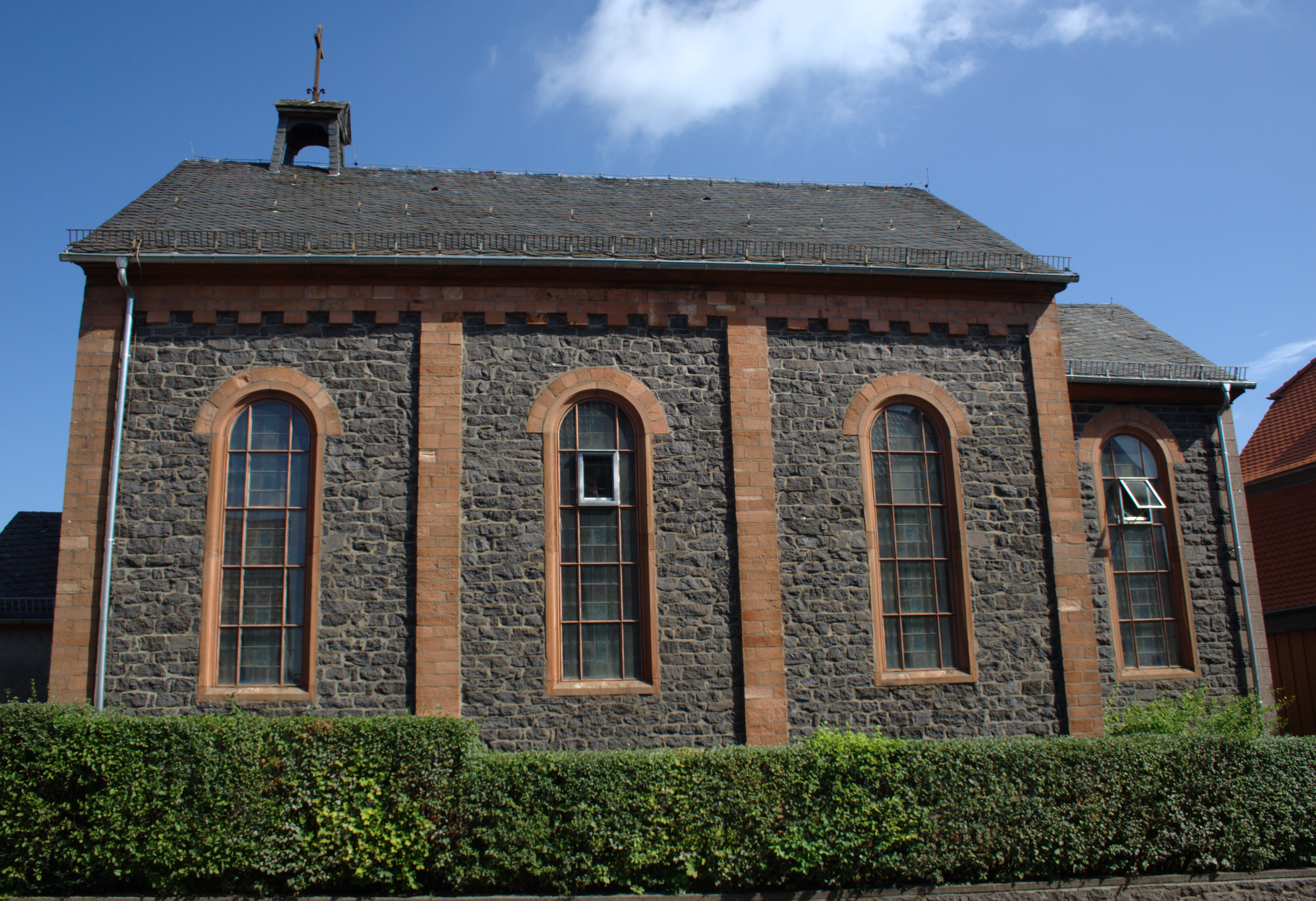 Catholic church in Gedern / Wenings Amthofstraße 5 / Hesse / Germany